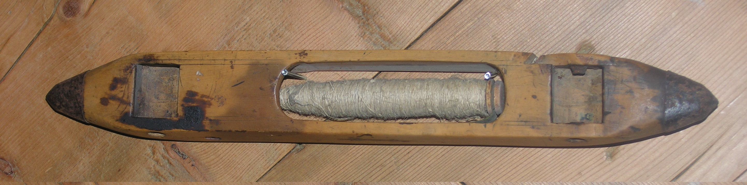 Shuttle with bobin- horizontal